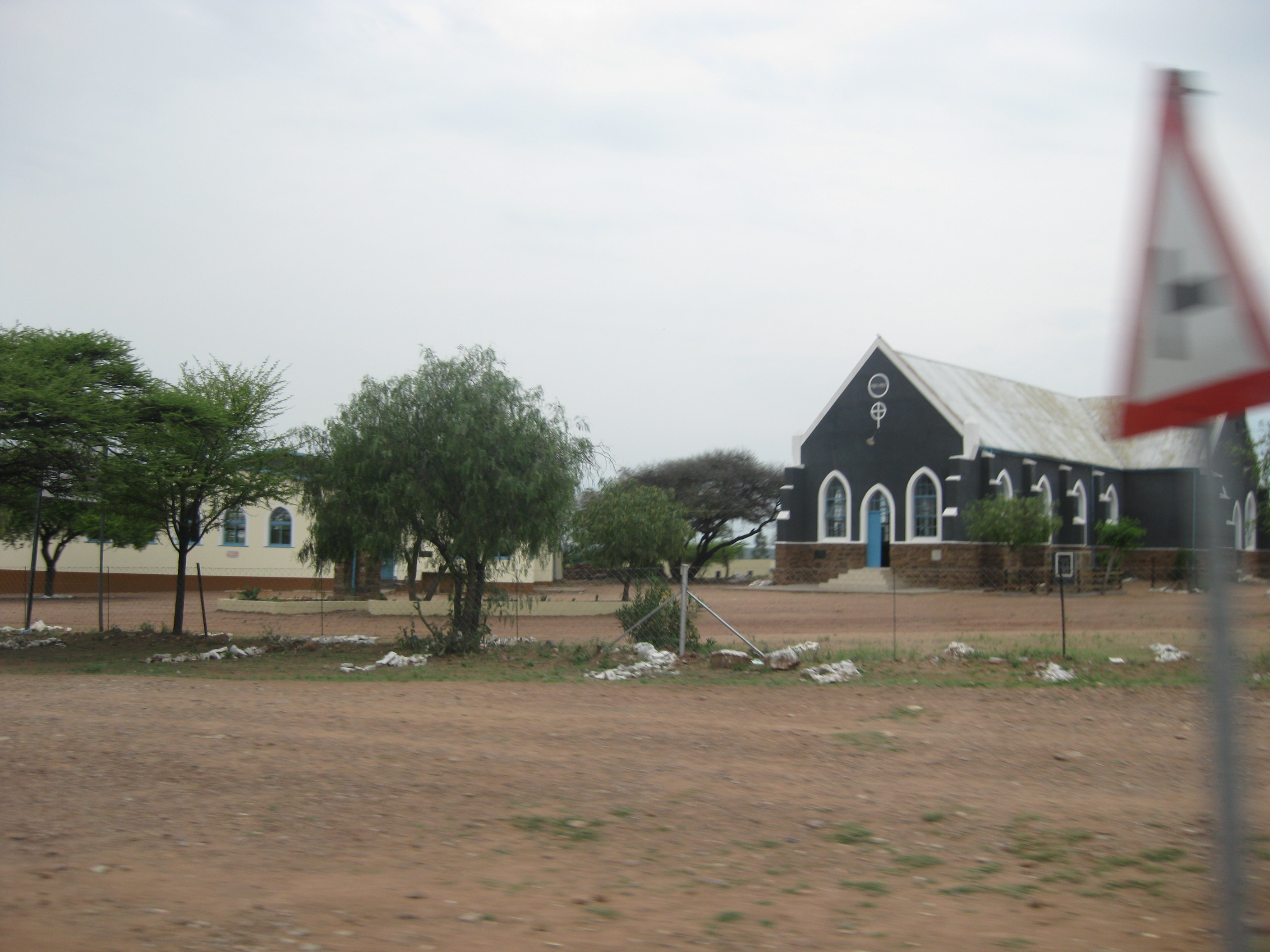 Church in Molepolole. Picture taken by me, October 2009.